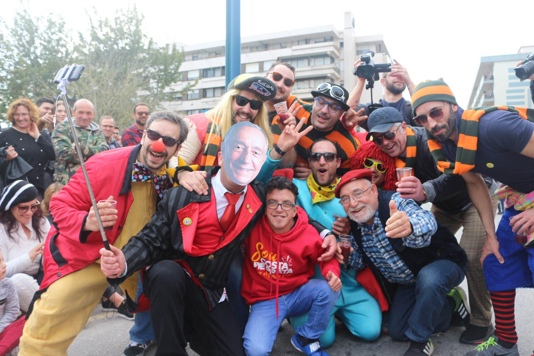 Ovar's (Portugal) Grupo Carnavalesco Os Hippies' 2019 Carnival parade